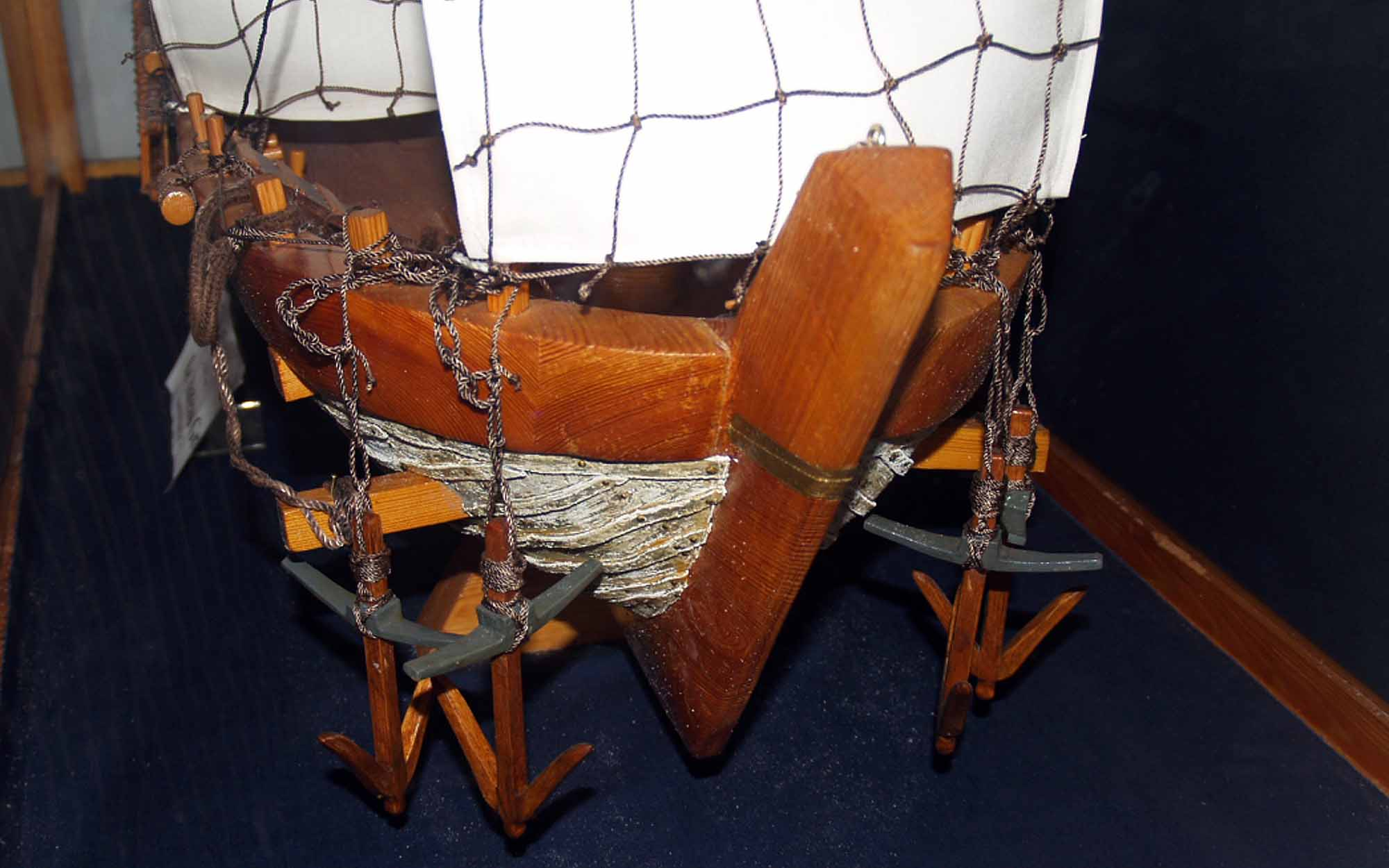 Bardo National Museum